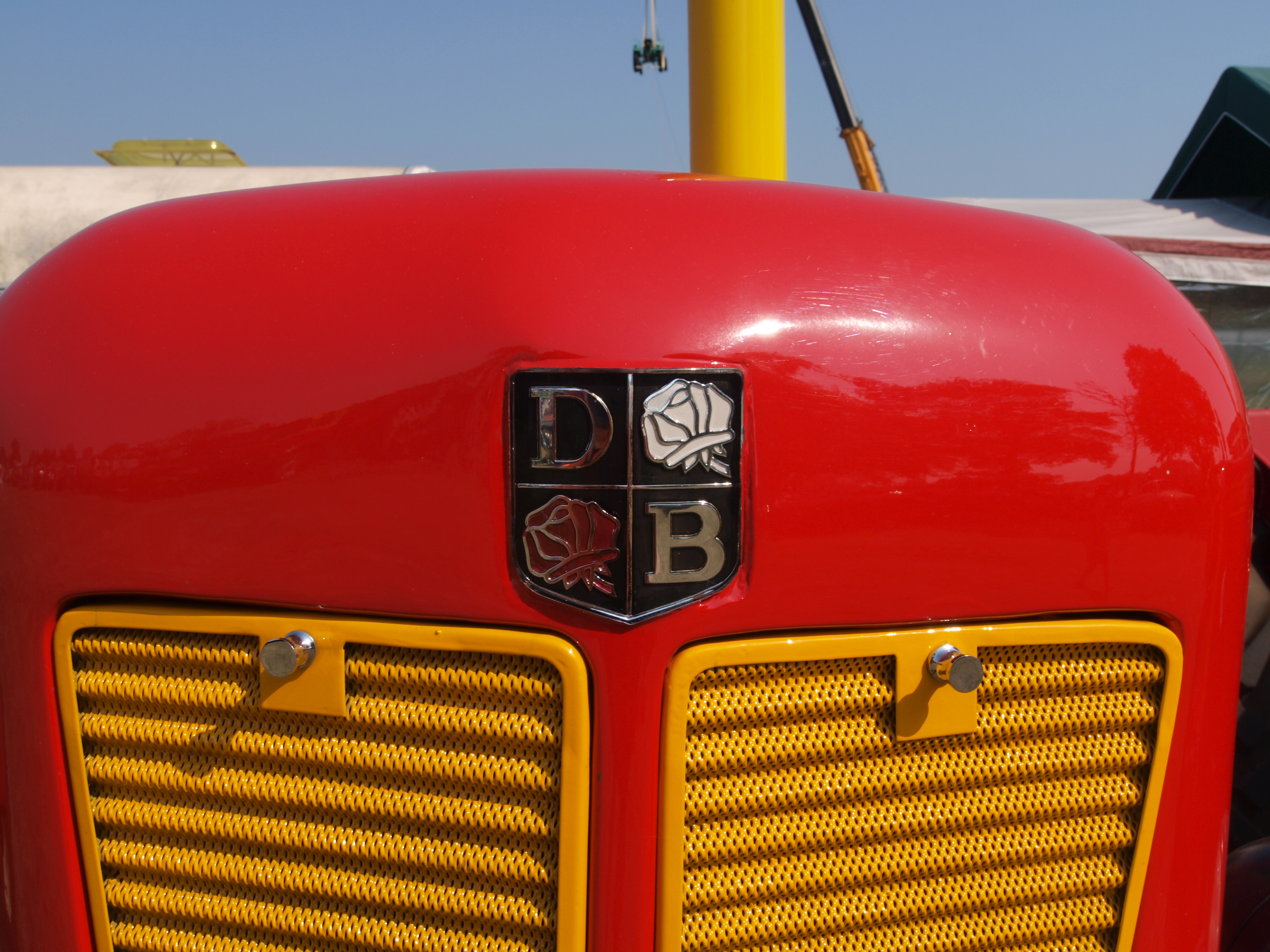 Photographed in The Netherlands. David Brown 950 Implematic logo.